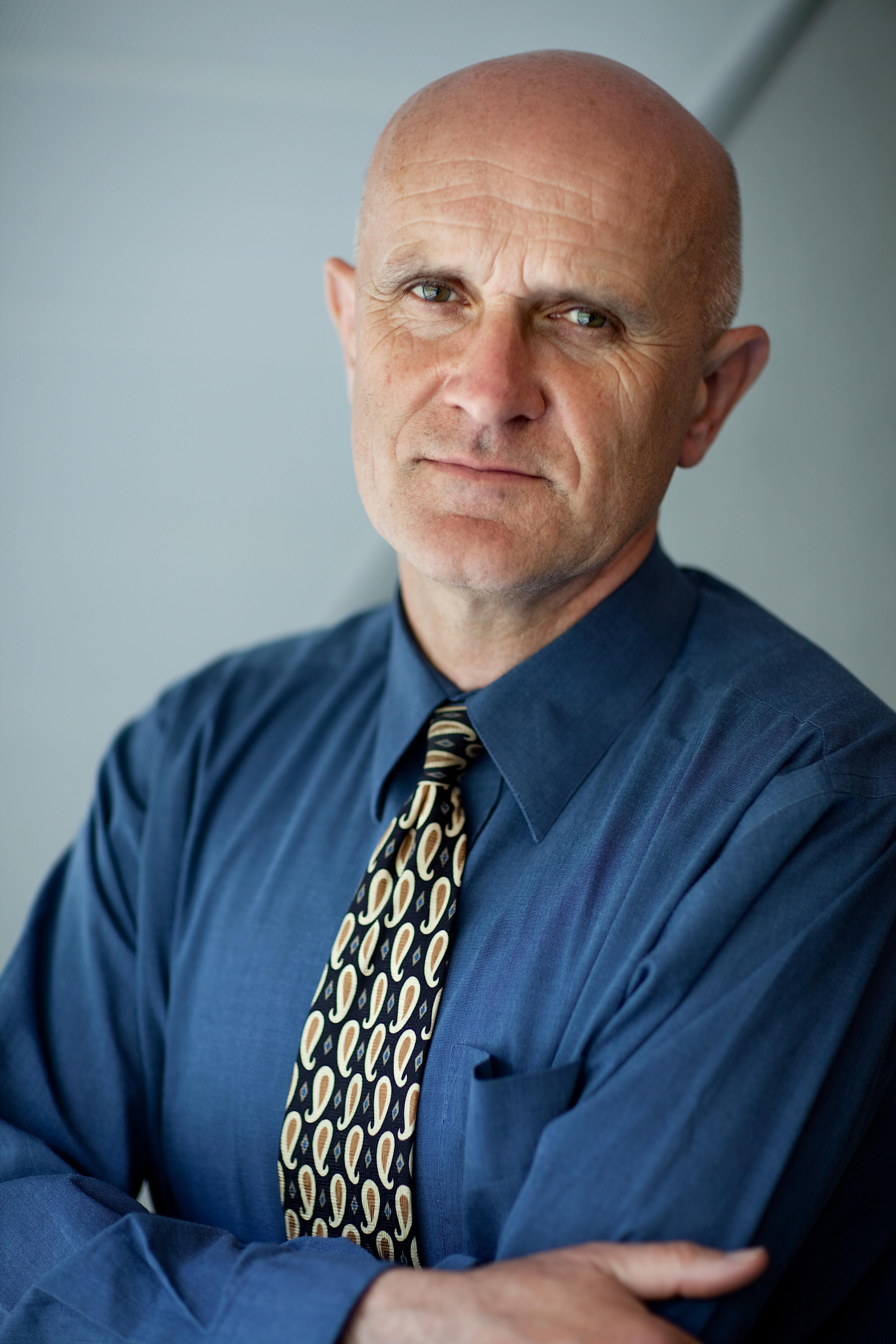 Historian and Africanist Stephen Ellis (1953-2015). Photo Yvonne Compier (Vrije Universiteit Amsterdam), at the occasion of Ellis taking up the Desmond Tutu Chair of VU A'dam